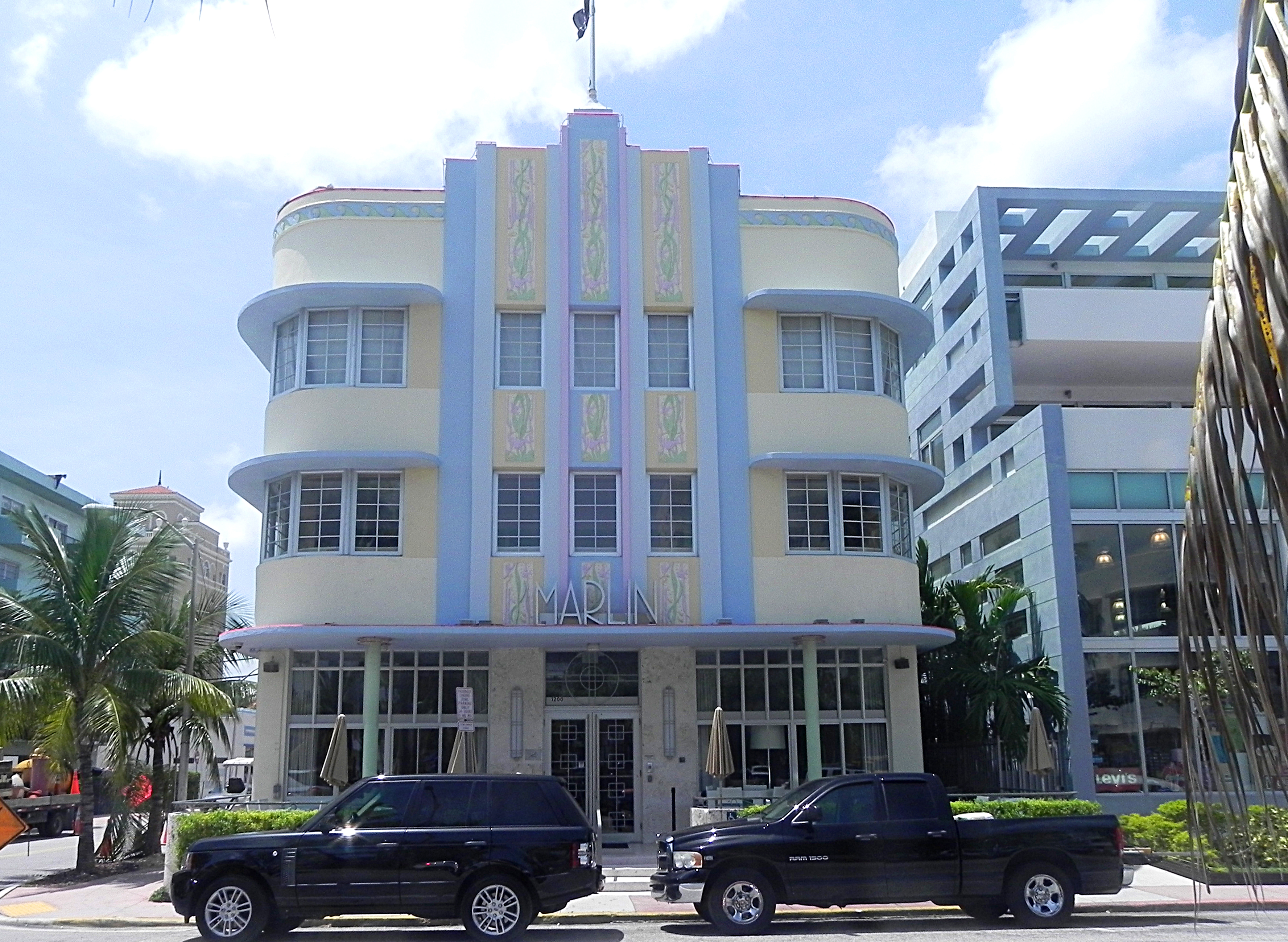 Art Déco Historic Districts, Miami - Marlin Hotel, 1939 architect Lawrence Murray Dixon